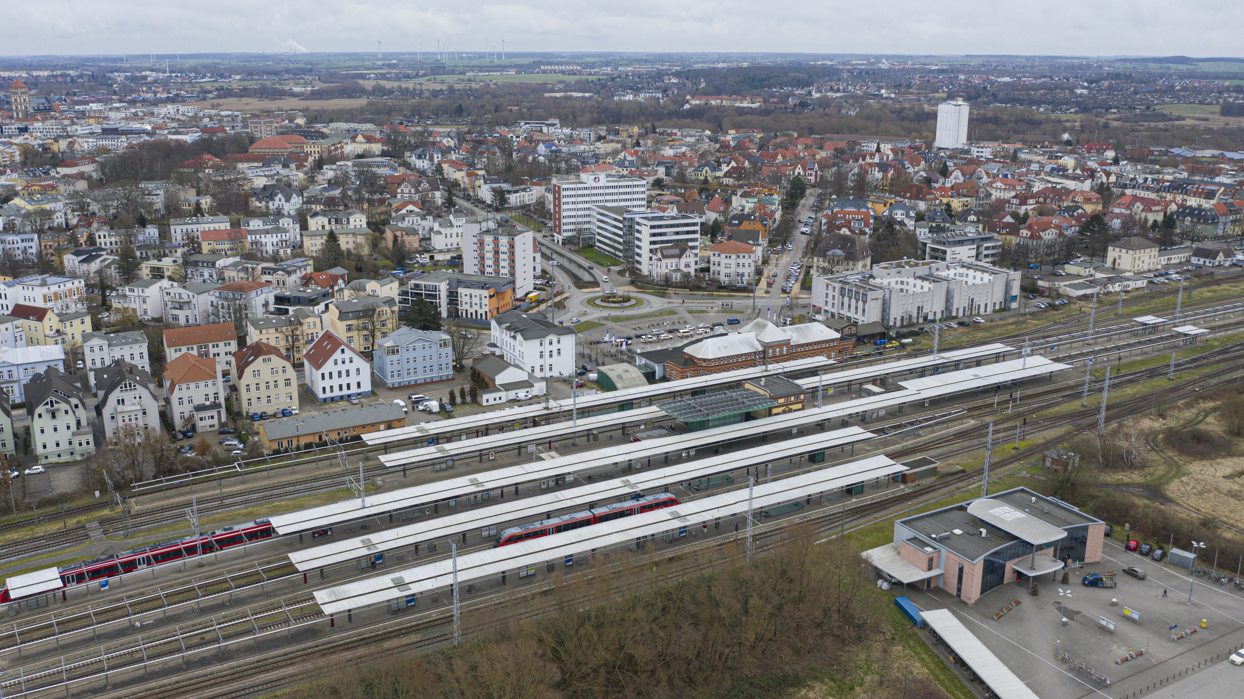 Aerial view of Rostock main station, Germany